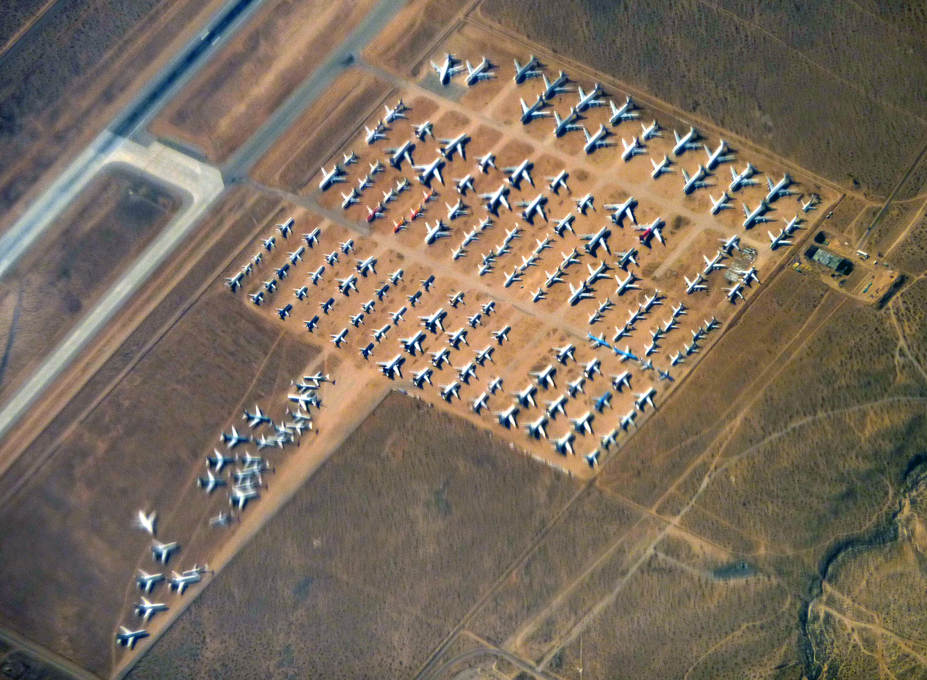 Aerial view of Victorville Airport's Aircraft boneyard, Victorville, California, USA.